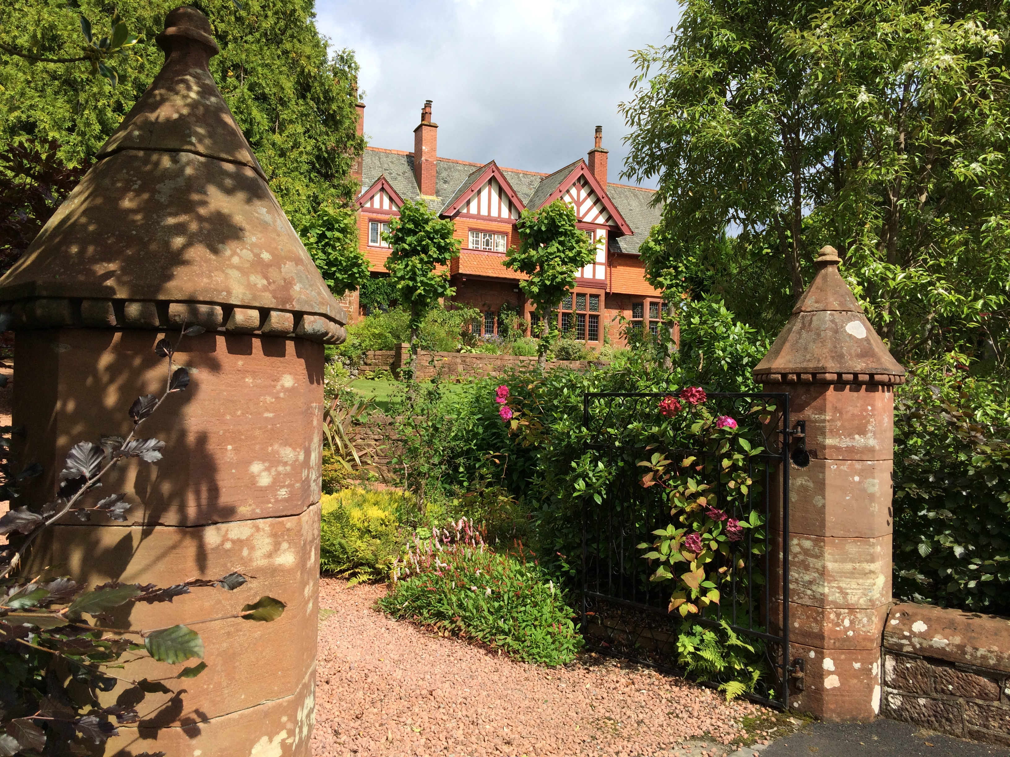 Brantwoode